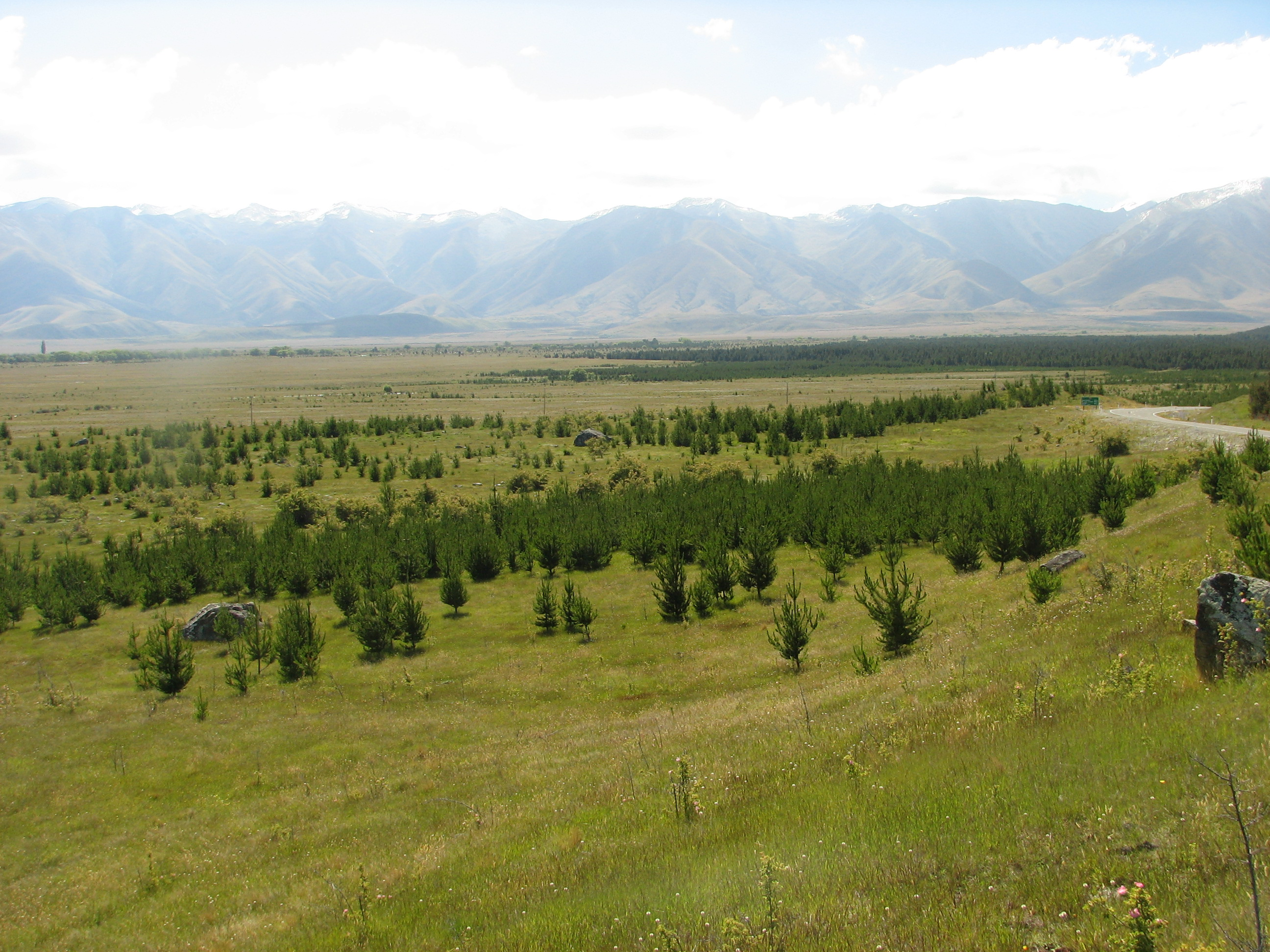 Wilding pines viewed from the intersection of State Highway 8 and 80 looking west towards the Southern Alps. State Highway 80 is visible to the right of the photograph.